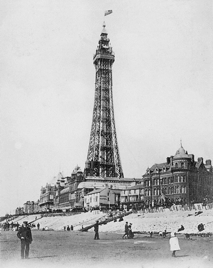 Blackpool Tower about 1902